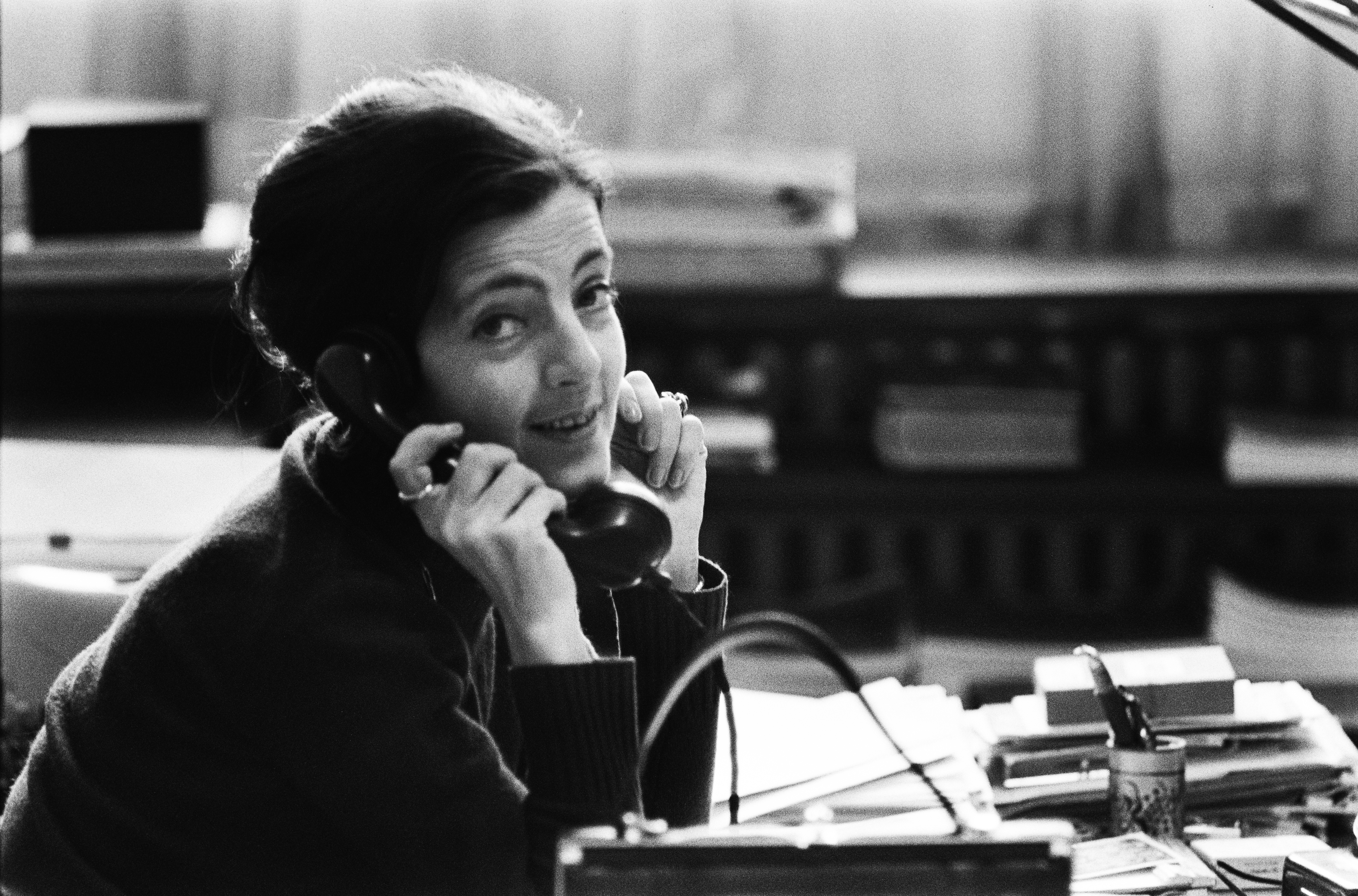 Photograph of the Finnish art historian Leena Peltola (1921–2008) working at Ateneum museum in Helsinki.